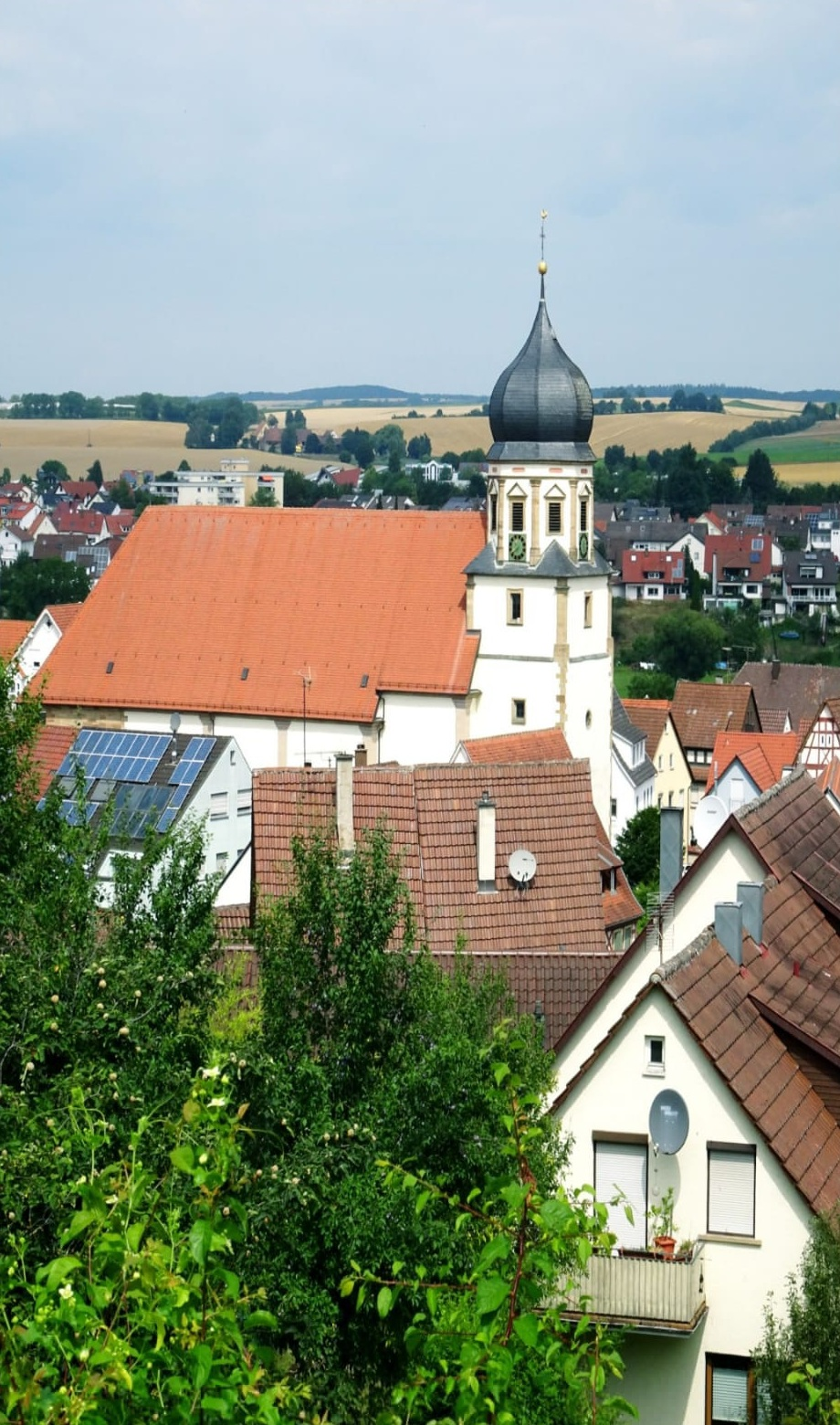 Look from the kolpingstreet to the mauritiuschurch oedheim